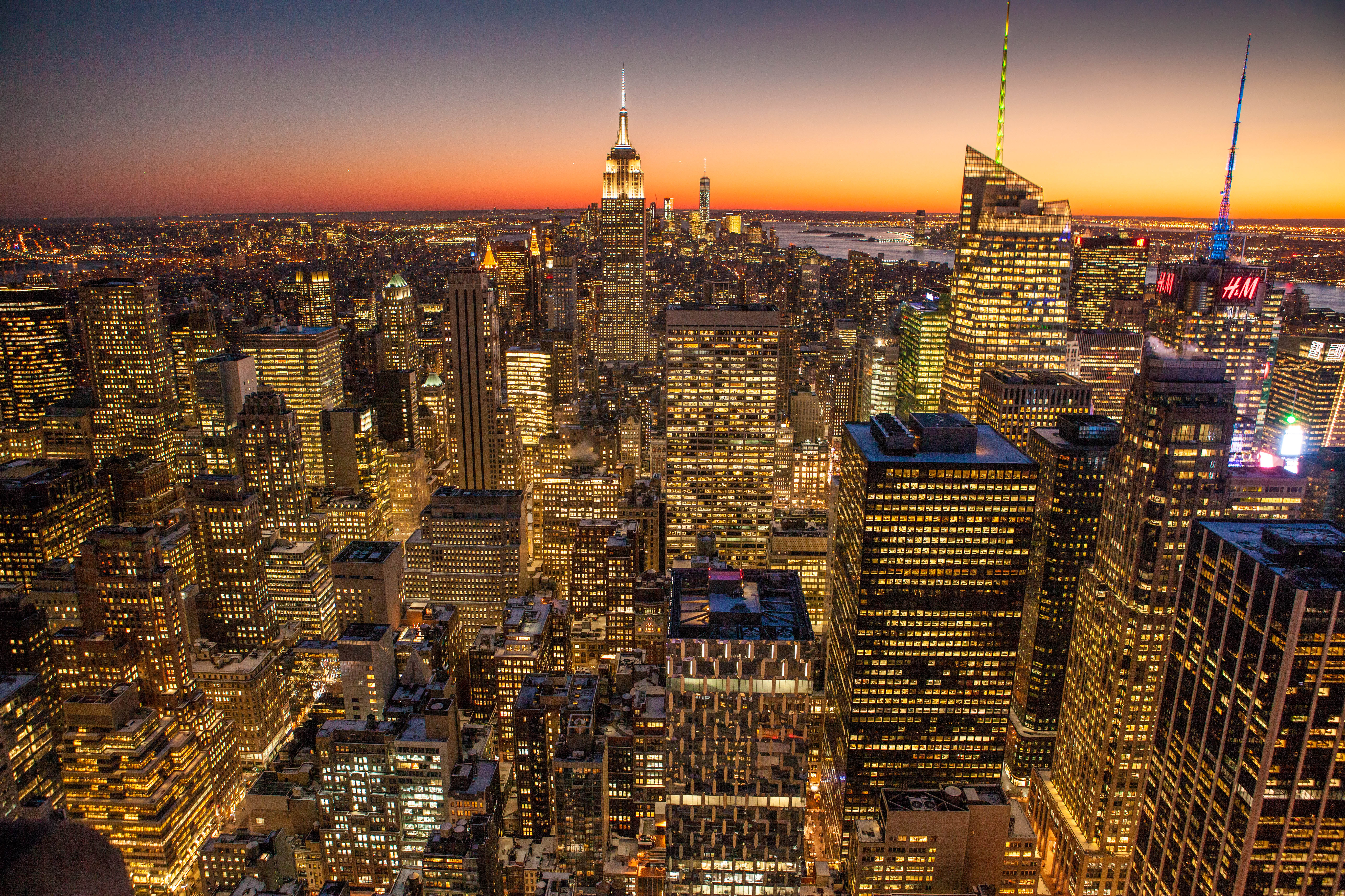 Midtown Manhattan in the evening, late January 2015.